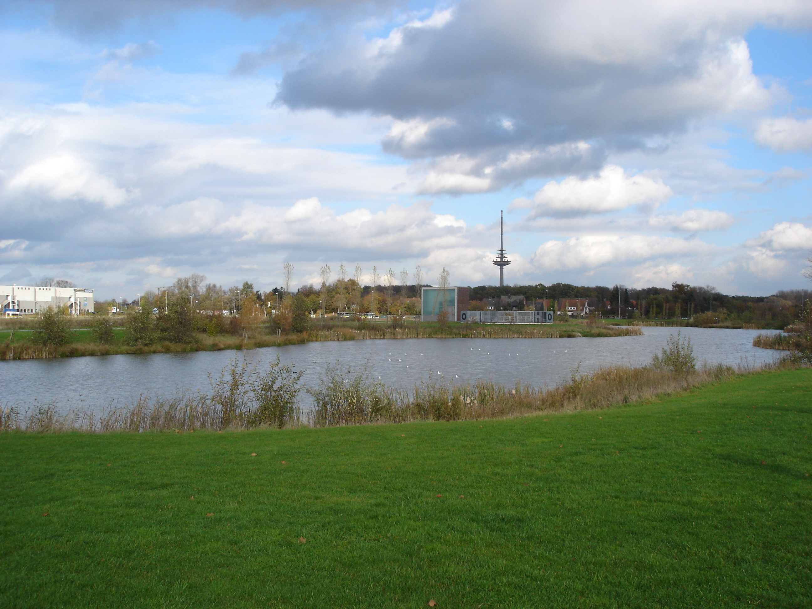 Loddenheide in the city of Münster (Westphalia), Germany: Lake in the "Friedenspark"